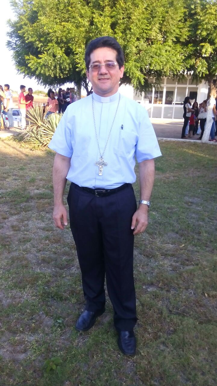 Paulo Jackson Nóbrega de Sousa